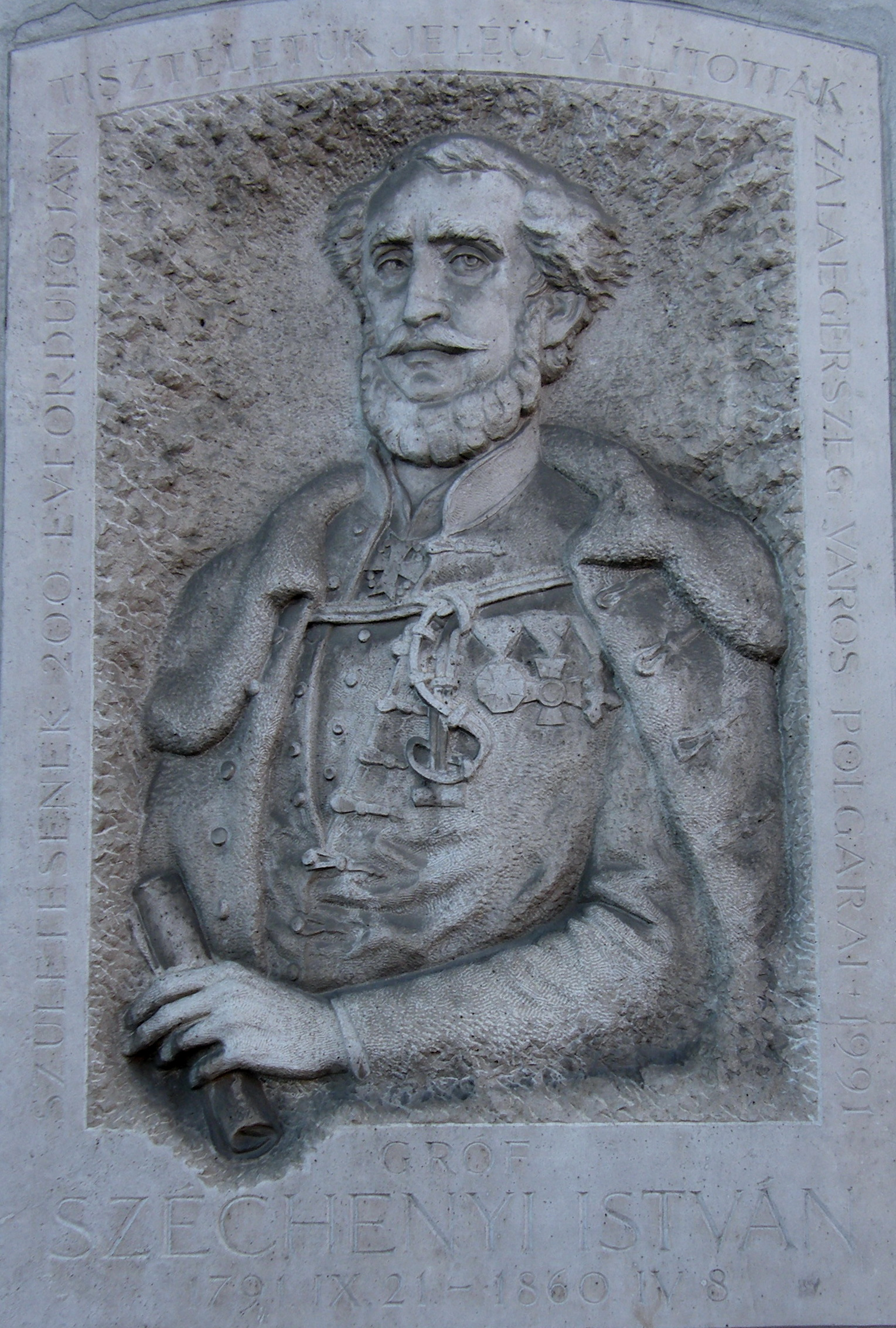 Bust of István Széchenyi, Zalaegerszeg